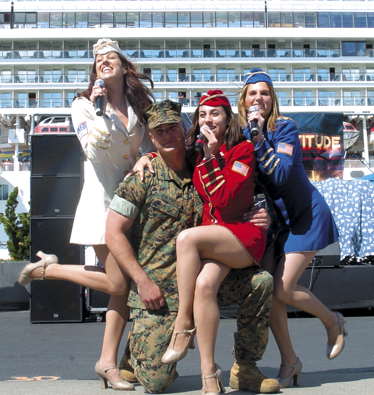 Subject: New York City United Service Organization (USO) - Lynelle Johnson is on right, wearing blue Caption: The New York City United Service Organization performers sing for visitors at Fleet Week. During the performance, they included Sgt. Jason Ehlers, assistant communications security project officer at Marine Corps Systems Command.